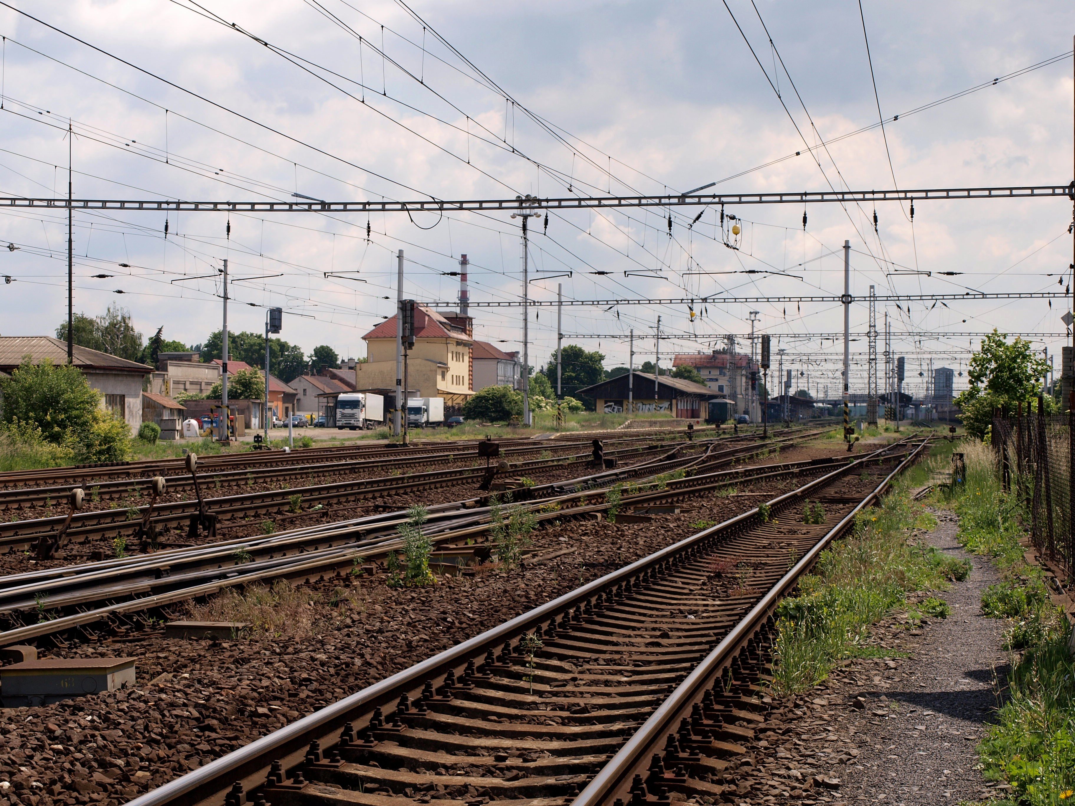 View at train station from Čelákovice side, Lysá nad Labem.